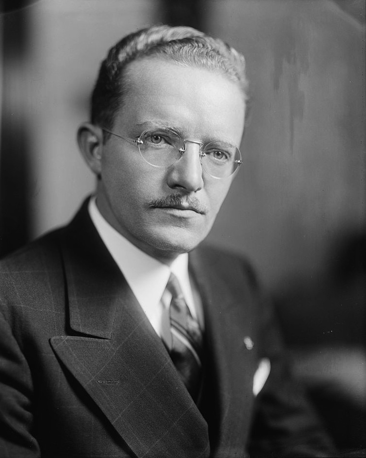 Former United States Congressman from New Jersey Fred A. Hartley, Jr..